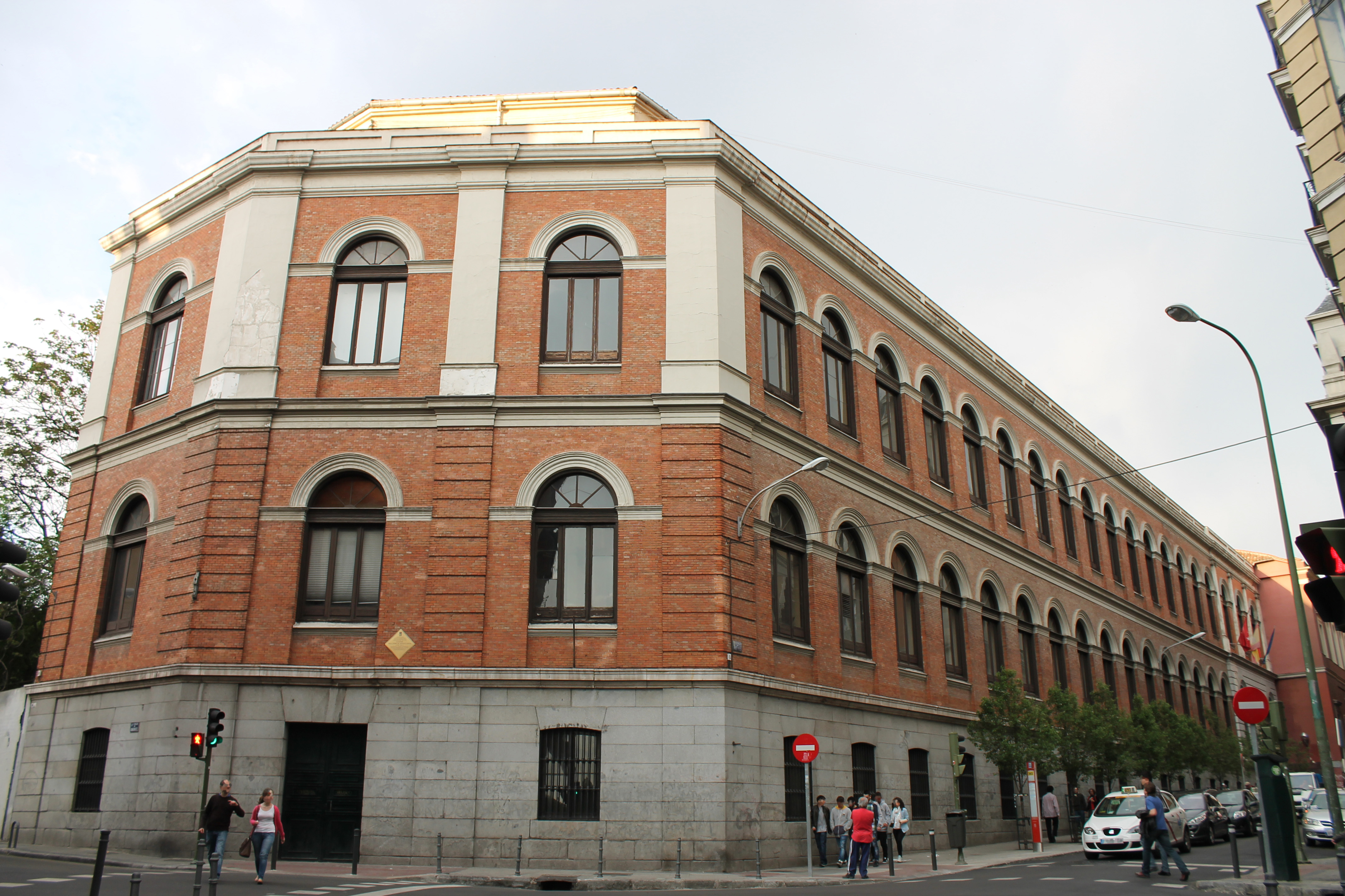 Façade of Instituto Cardenal Cisneros (a secondary school) in Madrid (Spain).